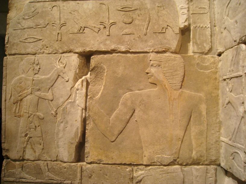 Grave relief of Methen - 4th dynasty of Egypt - Egyptian Museum of Berlin